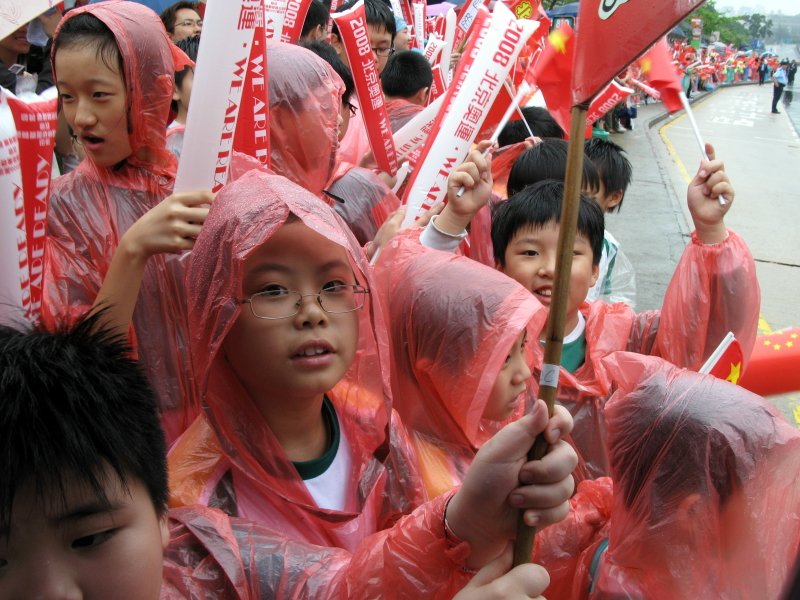 HK Children Celebrate Olympic Torch Relay